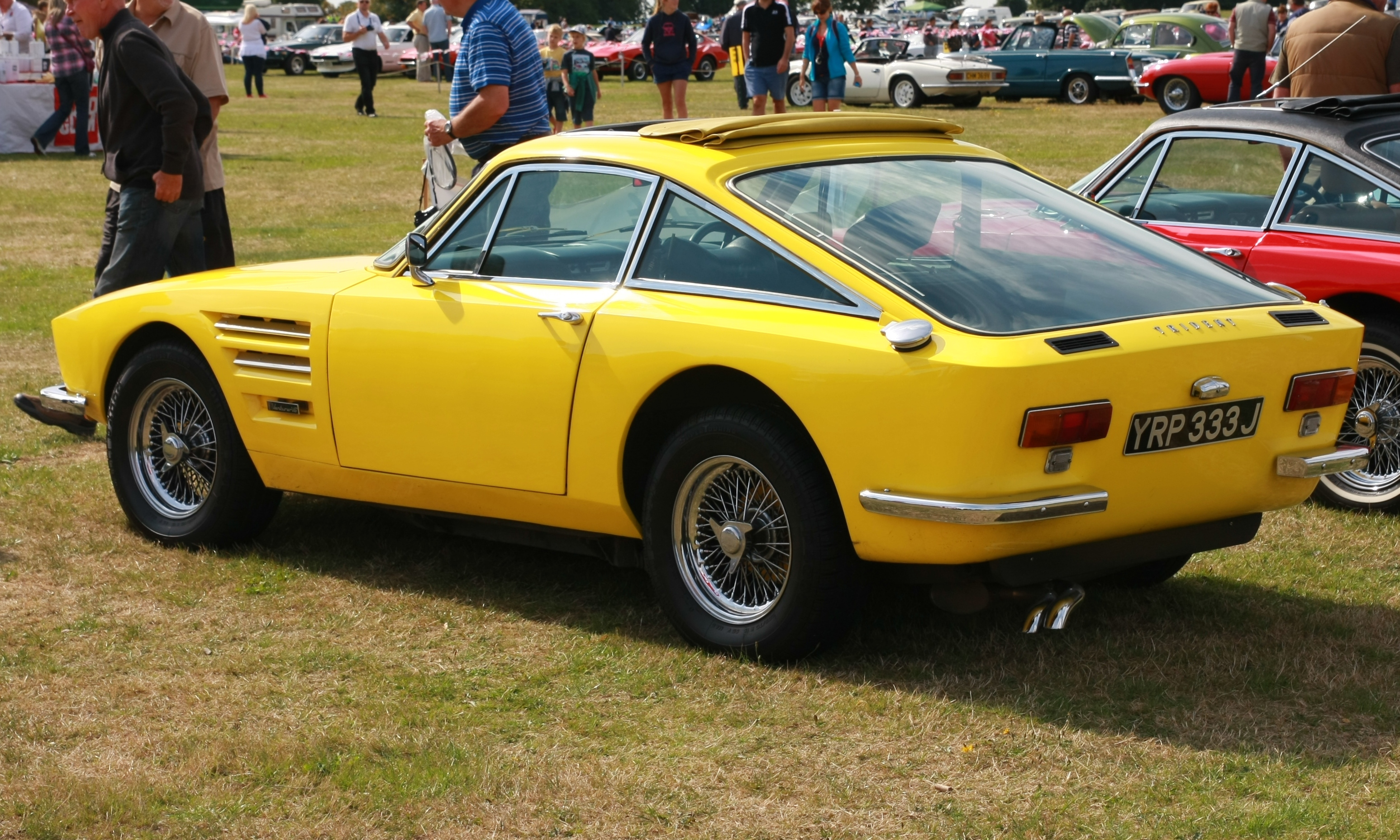 Trident Venturer V6 (ca 1970)